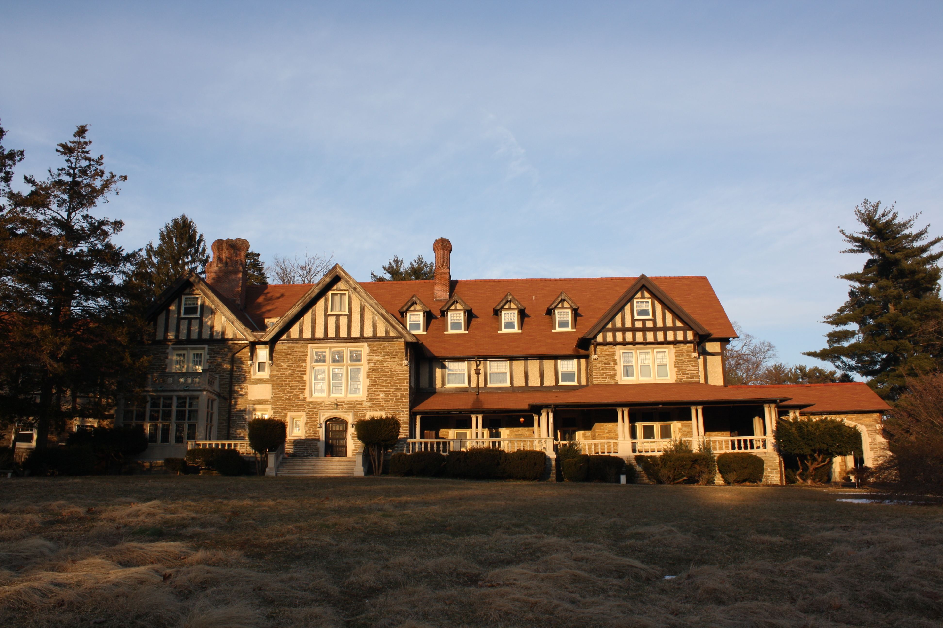 Chelten House, a mansion on Elkins Estate located in Elkins Park, Montgomery County, Pennsylvania. In 1896 Elkins commissioned Horace Trumbauer to build a home on the estate for his son, George W. Elkins in 1896. This mansion, Chelten House, was built in the Elizabethan style.